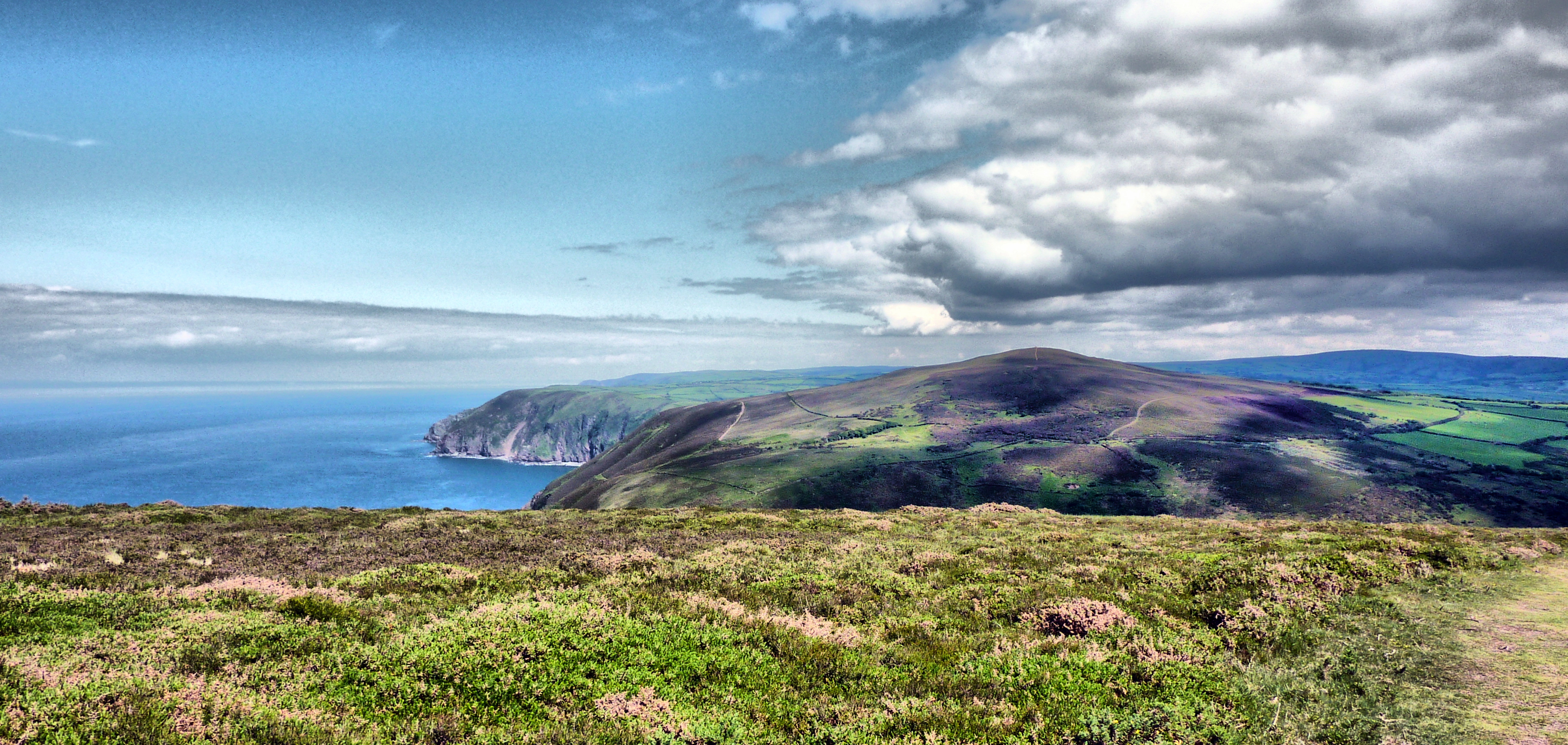 Great Hangman to Holdstone Down